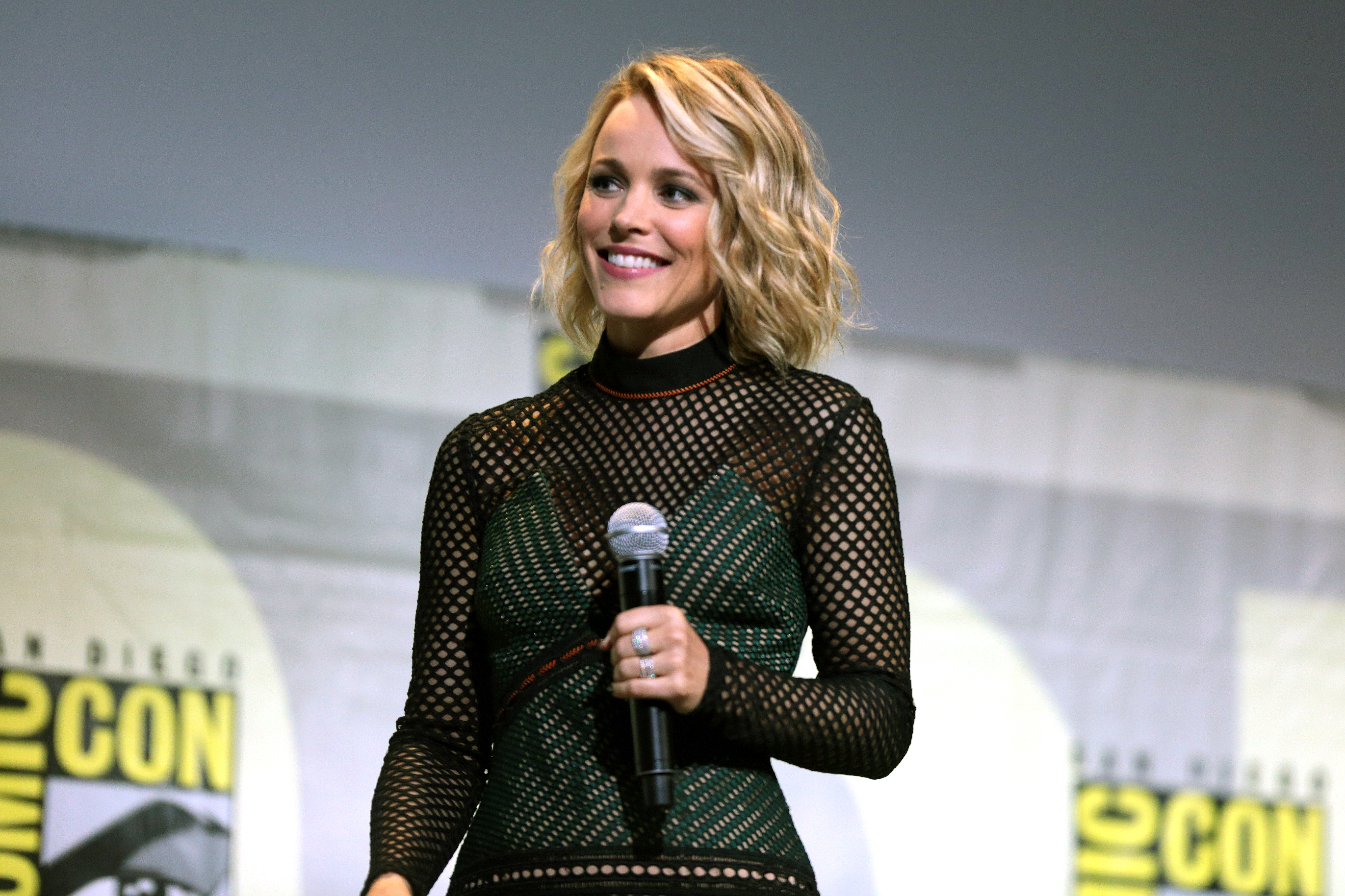 Rachel McAdams speaking at the 2016 San Diego Comic Con International, for "Doctor Strange", at the San Diego Convention Center in San Diego, California.